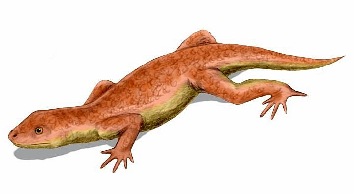 Nyctiphruretus acudens, a procolophonid (parareptilia) from the Late Permian of Russia, pencil drawing